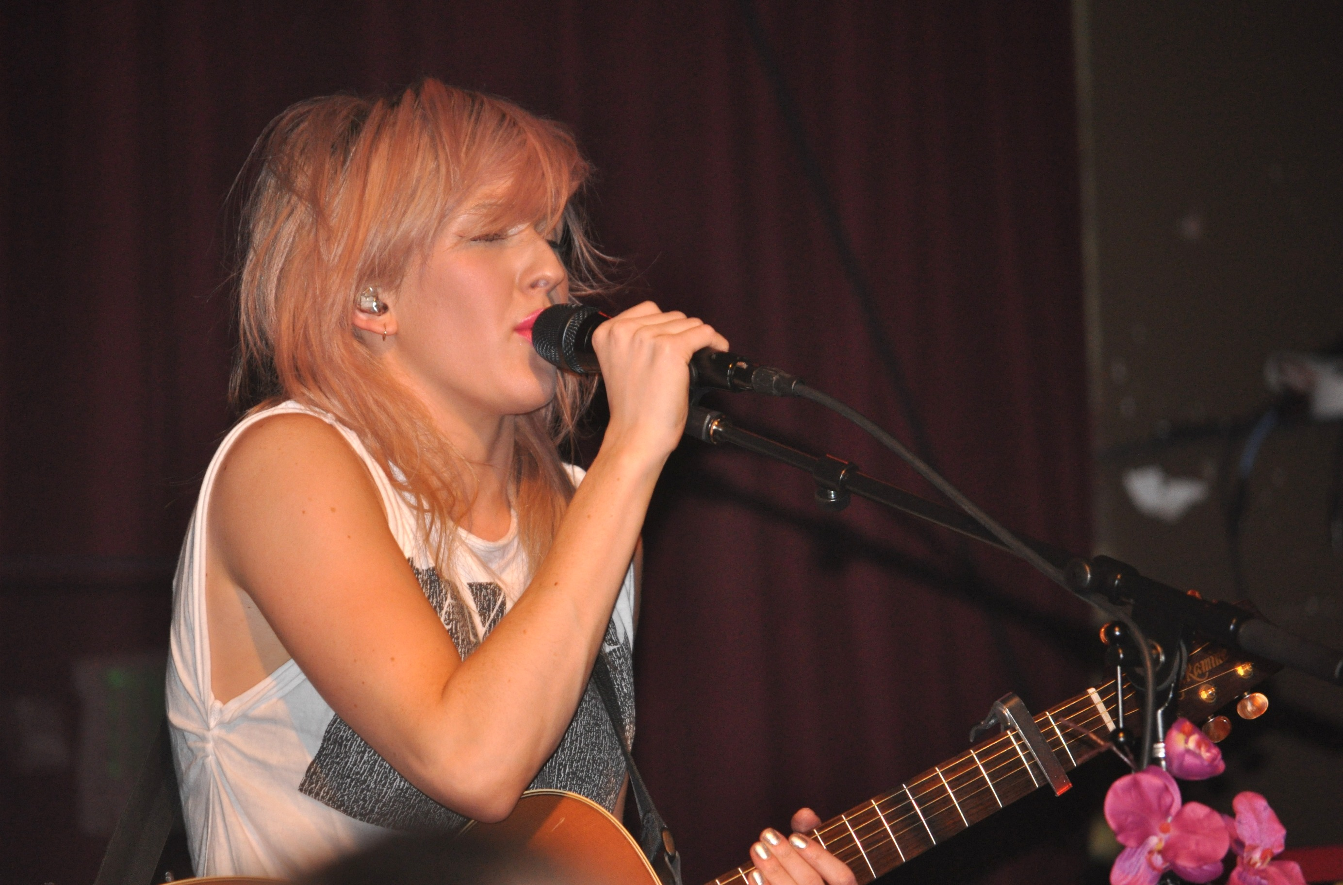 Ellie Goulding performing in Seattle